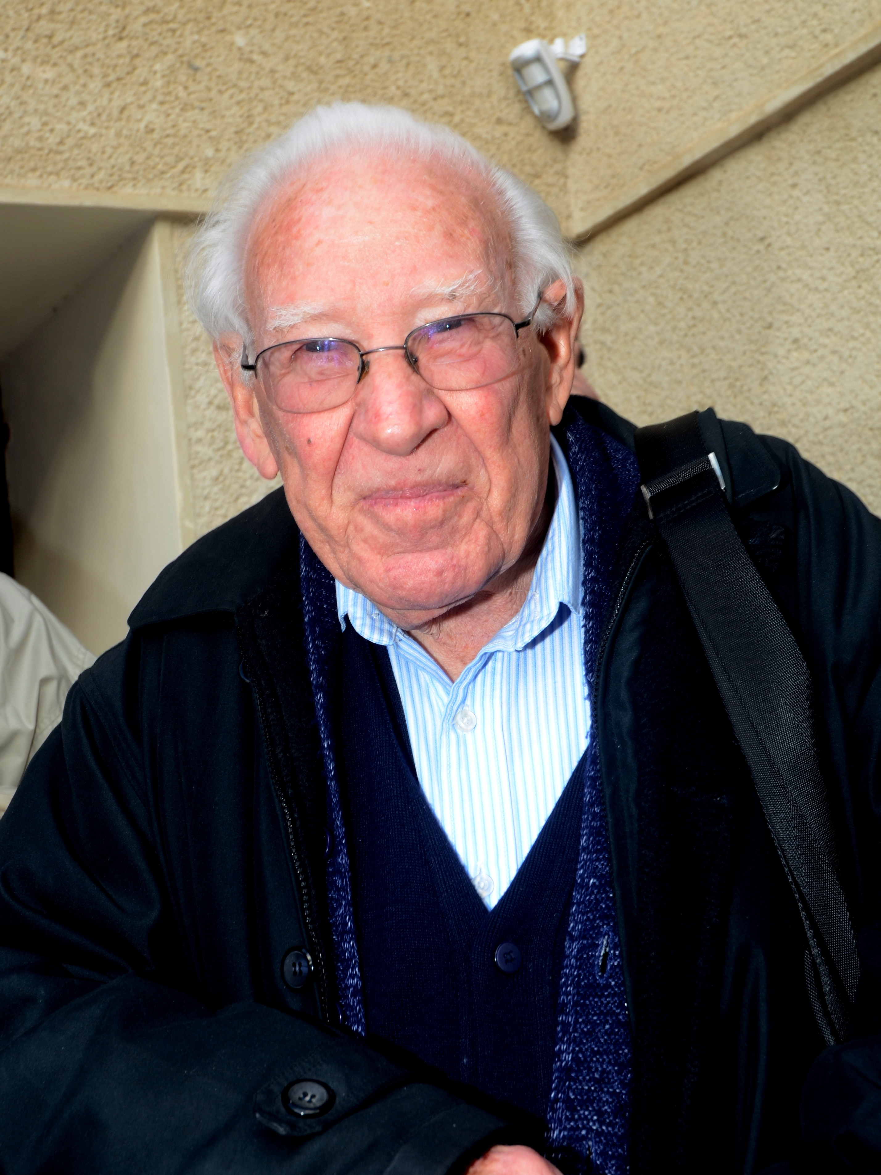 Aharon Yadlin at the inauguration ceremony of Yad Levi Eshkol's visitors' center, 2016.